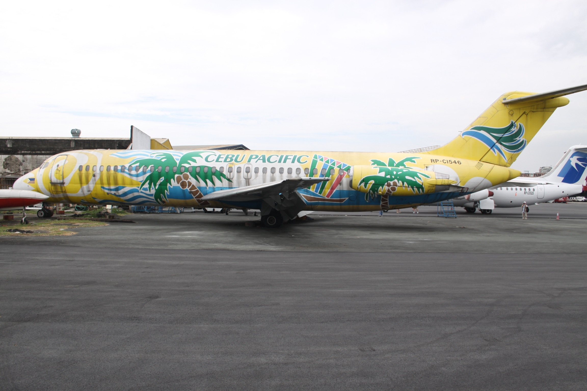 At Manila Ninoy Aquino International